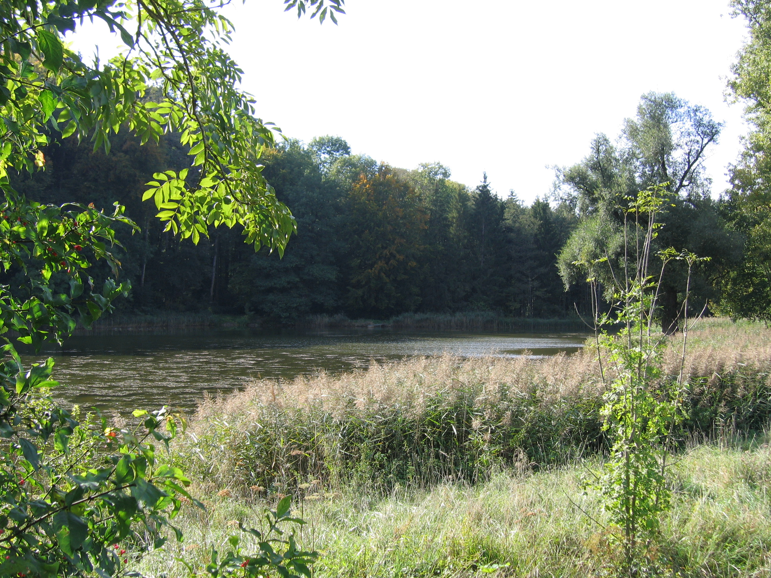 Germany - Baden-Württemberg - Bodenseekreis - Salem: 'Markgräfinweiher'